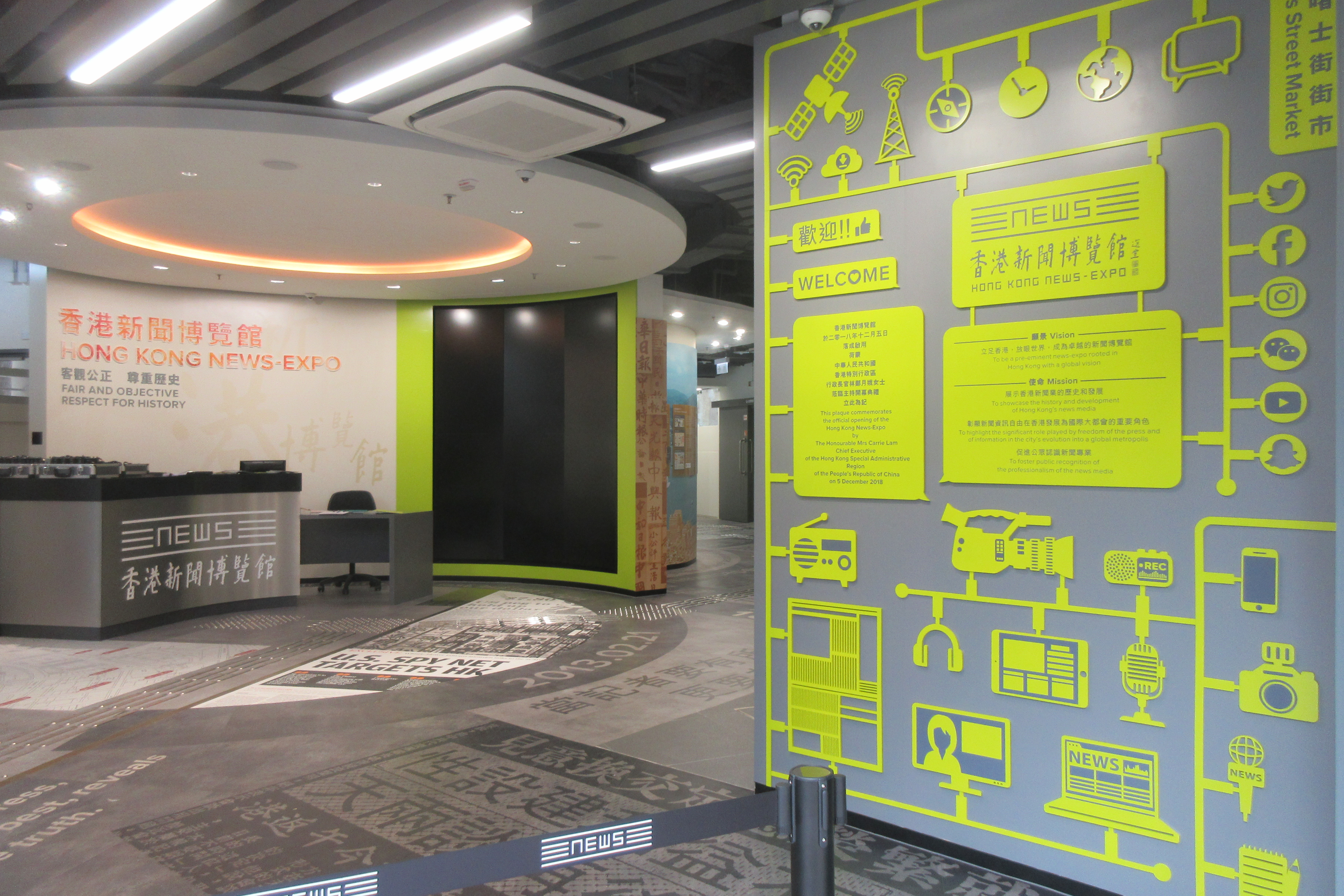 HK Sheung Wan Bridges Street 香港新聞博覽館 Hong Kong News Expo museum in December 2018